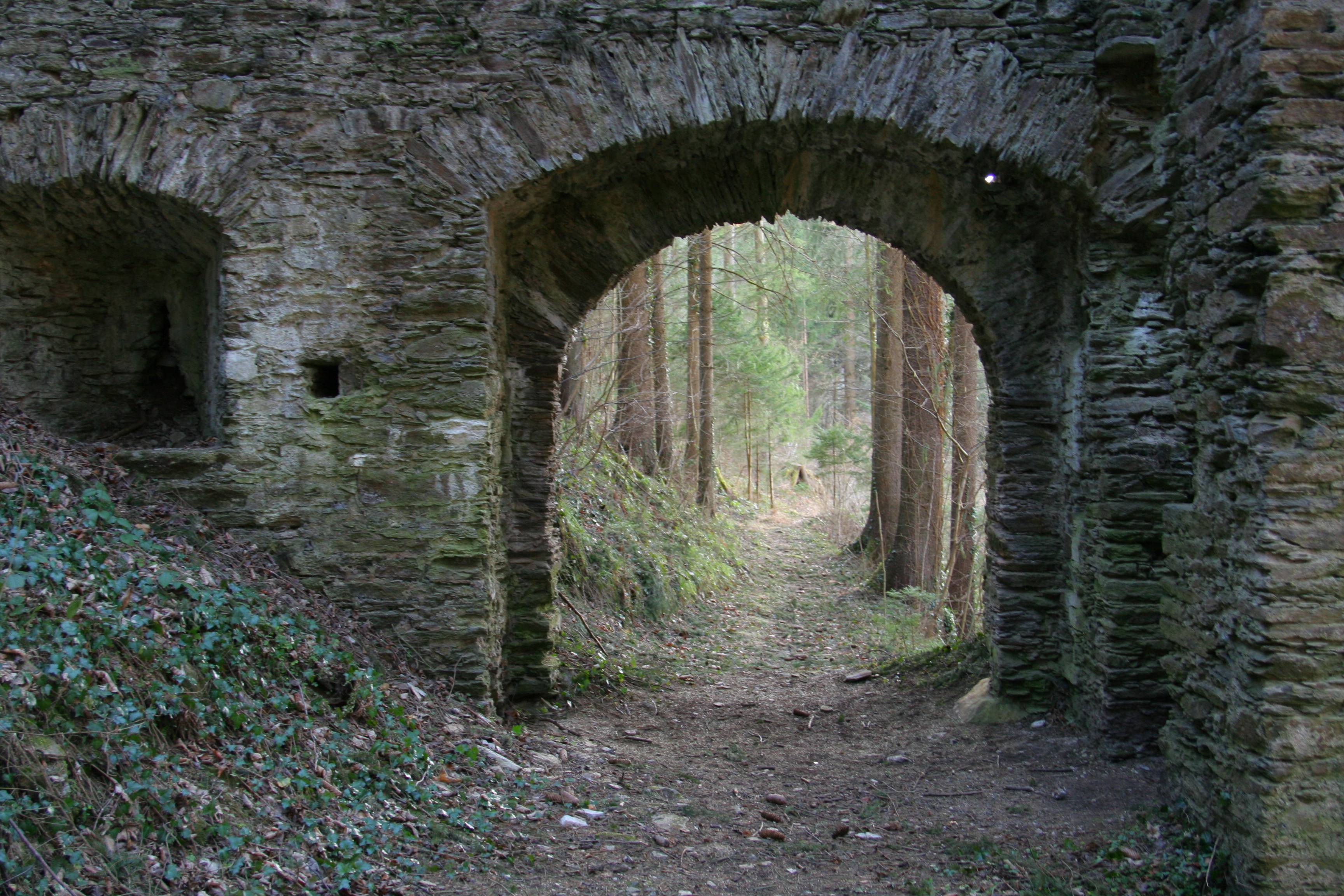 Gate of castle Neu-Leonroth